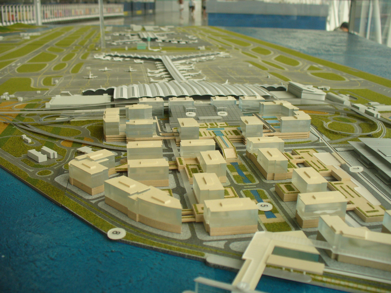 The model of Hong Kong International Airport SkyCity